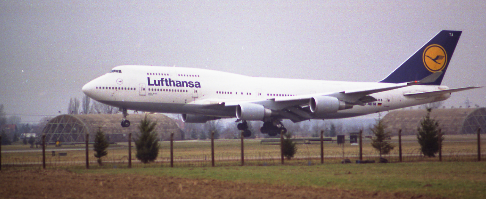 Lufthansa Boeing 747-430 D-ABTA during pilot traing at Black Forest Airport Lahr (EDTL/LHA)